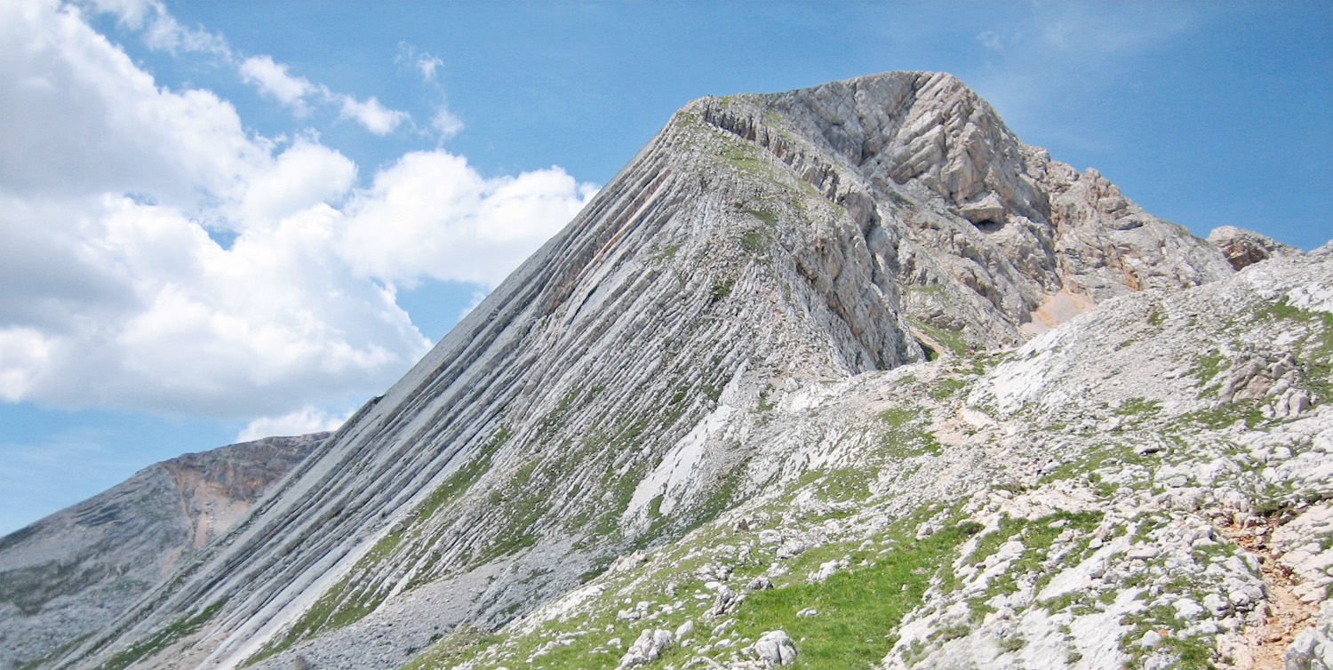 Stone Formations in the Fanes-Sennes-Prags Nature Parc - South Tyrol